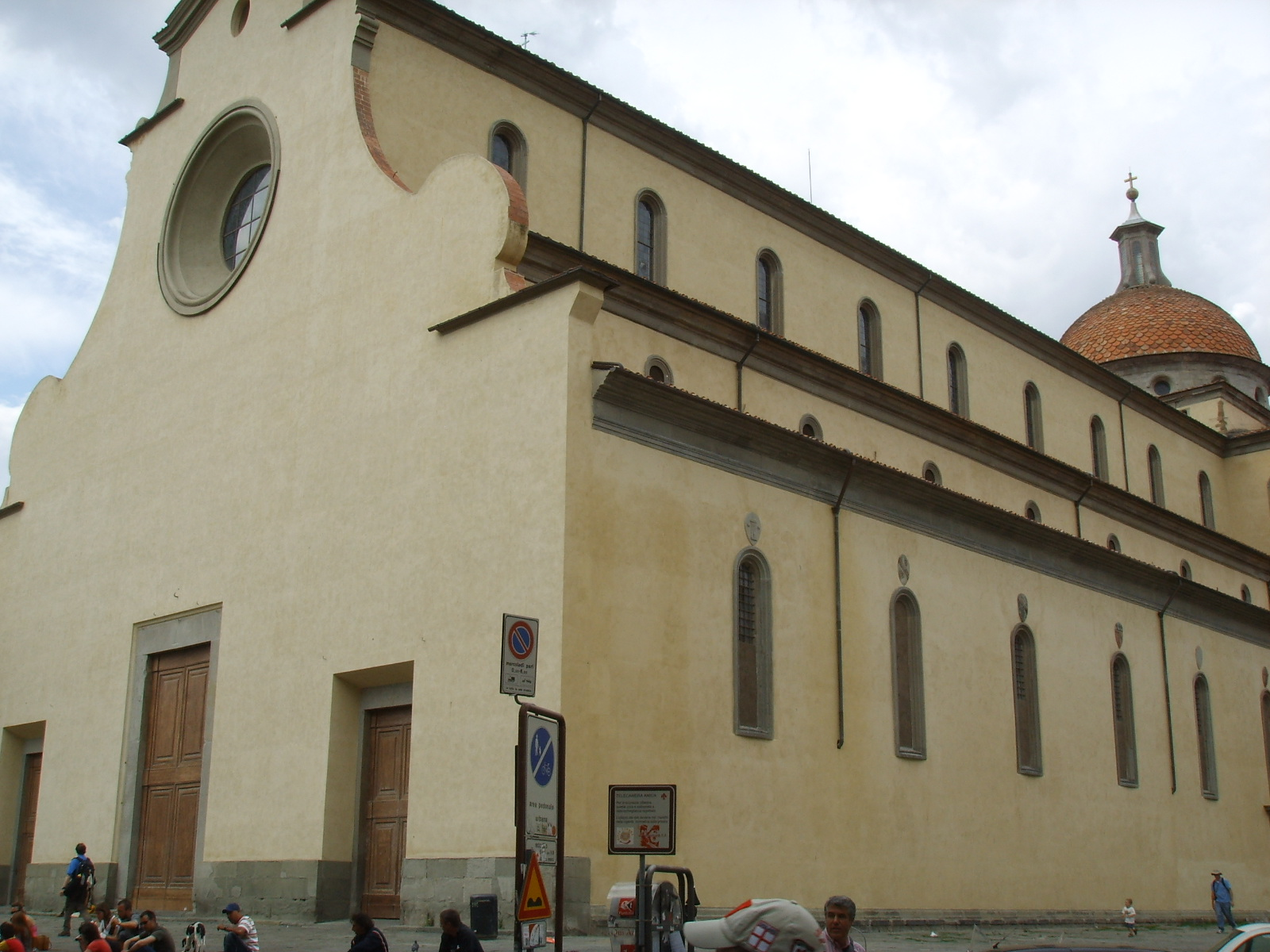 Santo Spirito church, Florence, Italy